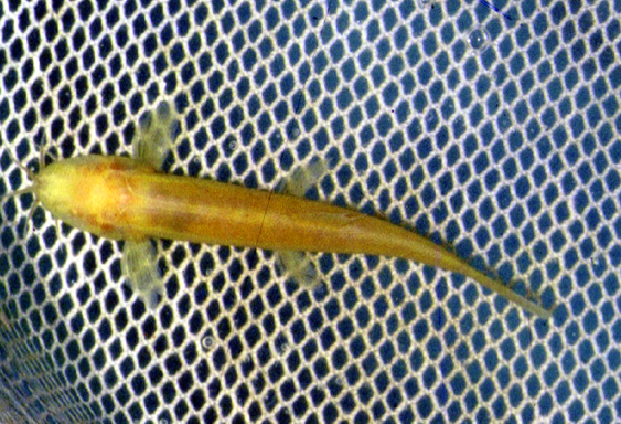 Albinic with regressed eyes the cave adapted population of Nemacheilus (Indoreonectes) evezardi;Albinic with regressed eyes the cave adapted population of Nemacheilus evezardi